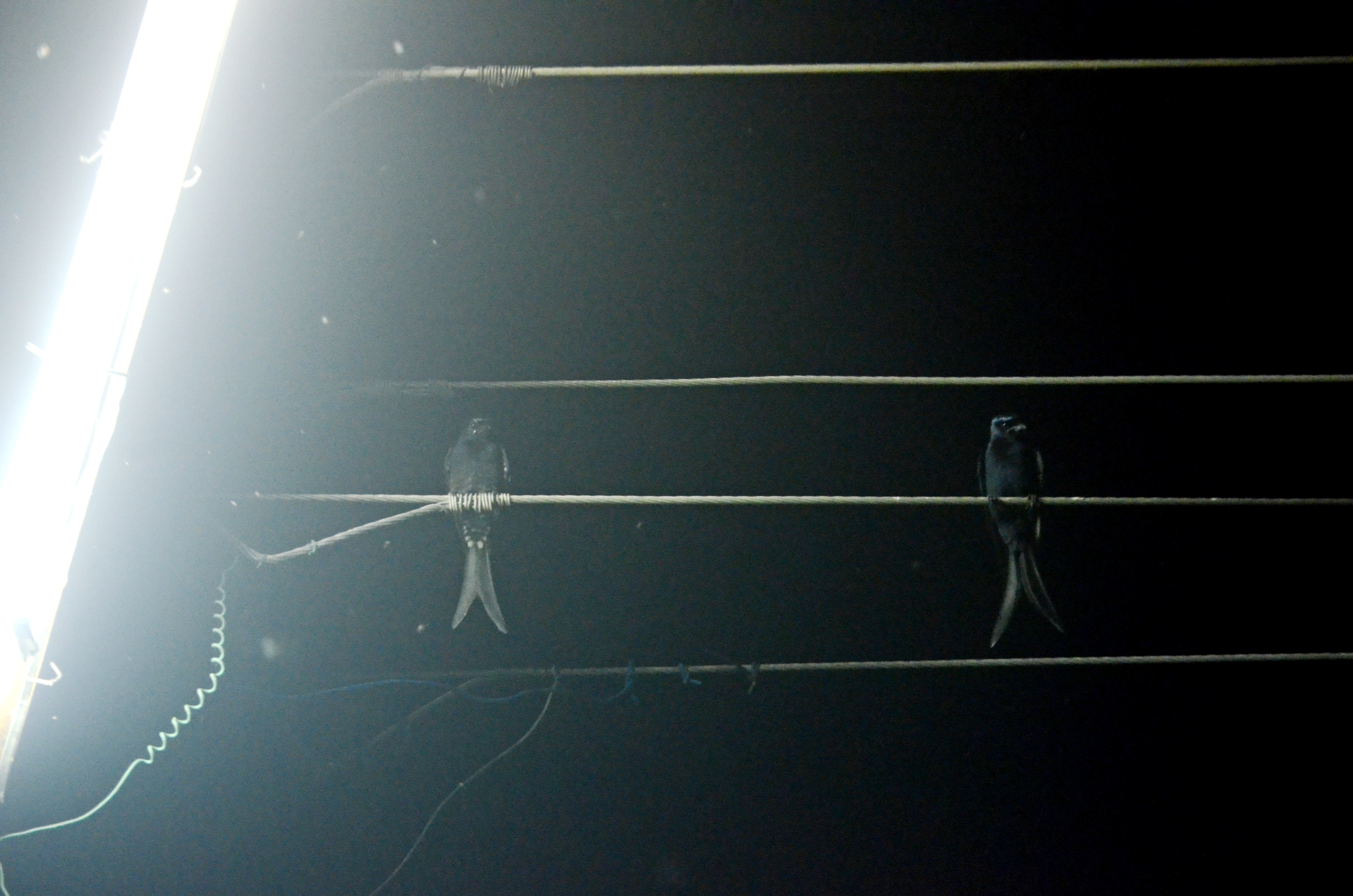 Black drongos feeding under street lamp